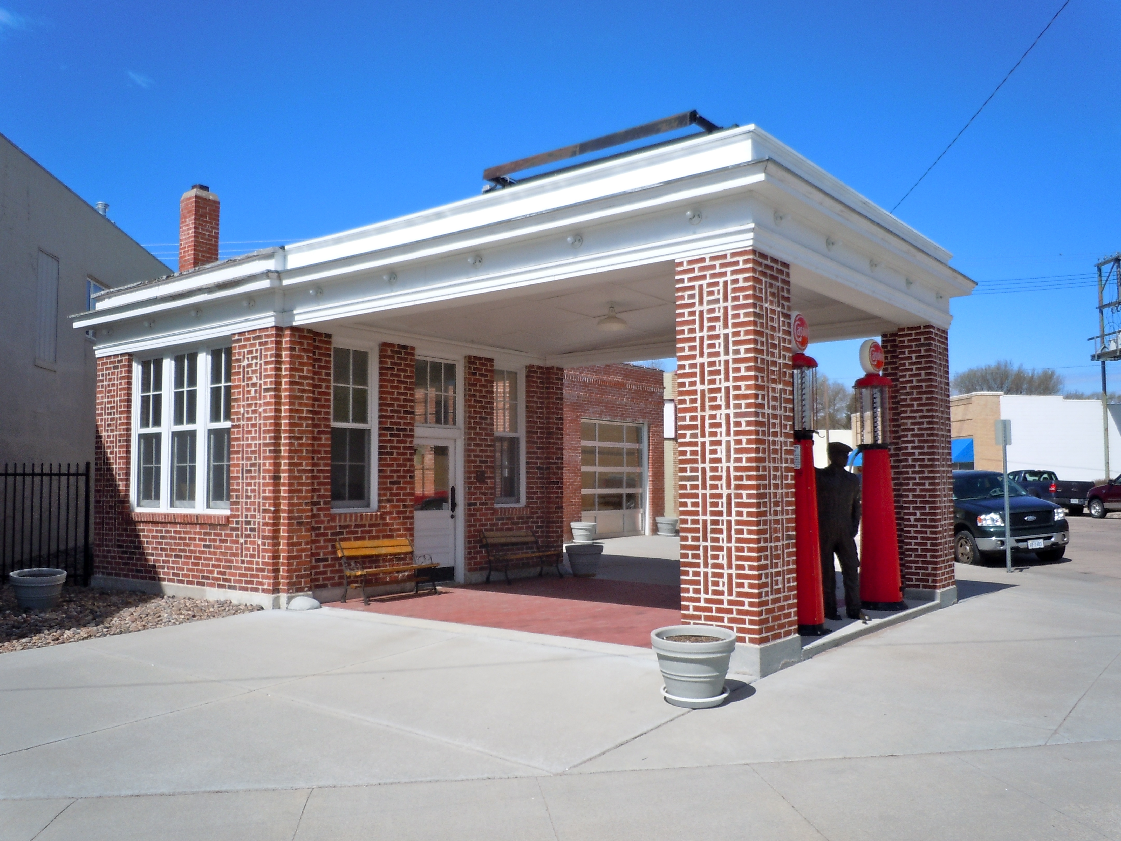 Standard Oil Red Crown Service Station on the NRHP since August 20, 2004. At 220 N. Spruce St., Ogallala, Keith County, Nebraska. Kitty-corner to the Post Office, which is also NRHP listed. Used now as a tourist information center. Why are these places always closed when I come through town? Answer: Because they work 9-5 M-F!